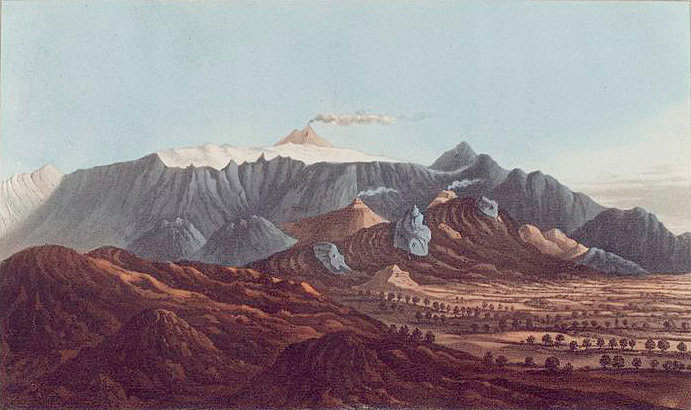 View of the Valle del Bove, Etna (Principles of geology; being an attempt to explain the former changes of the earth's surface, by reference to causes now in operation)